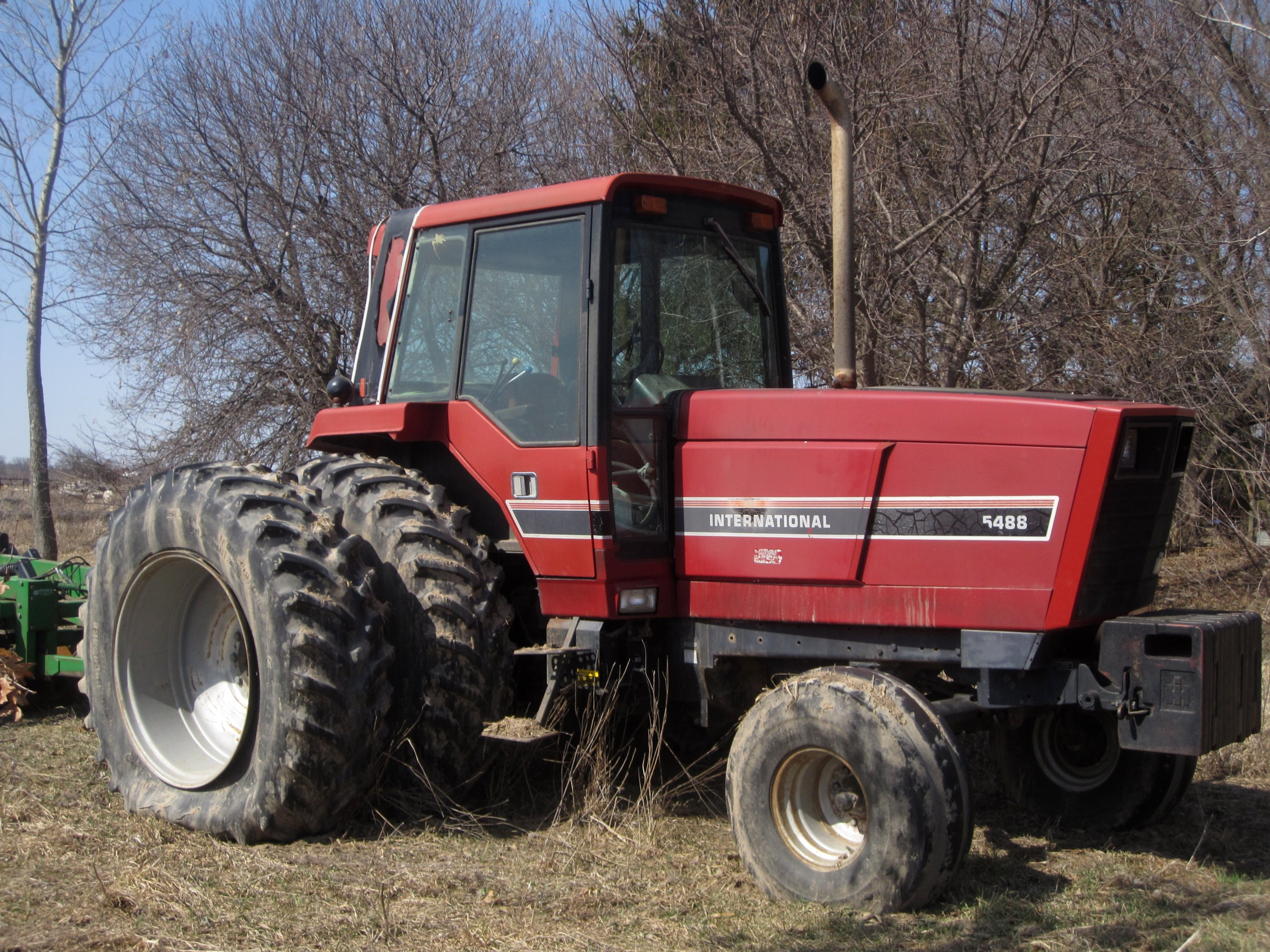 IHC International 5488 tractor. Another of Walt's tractors. It has a flat tire.